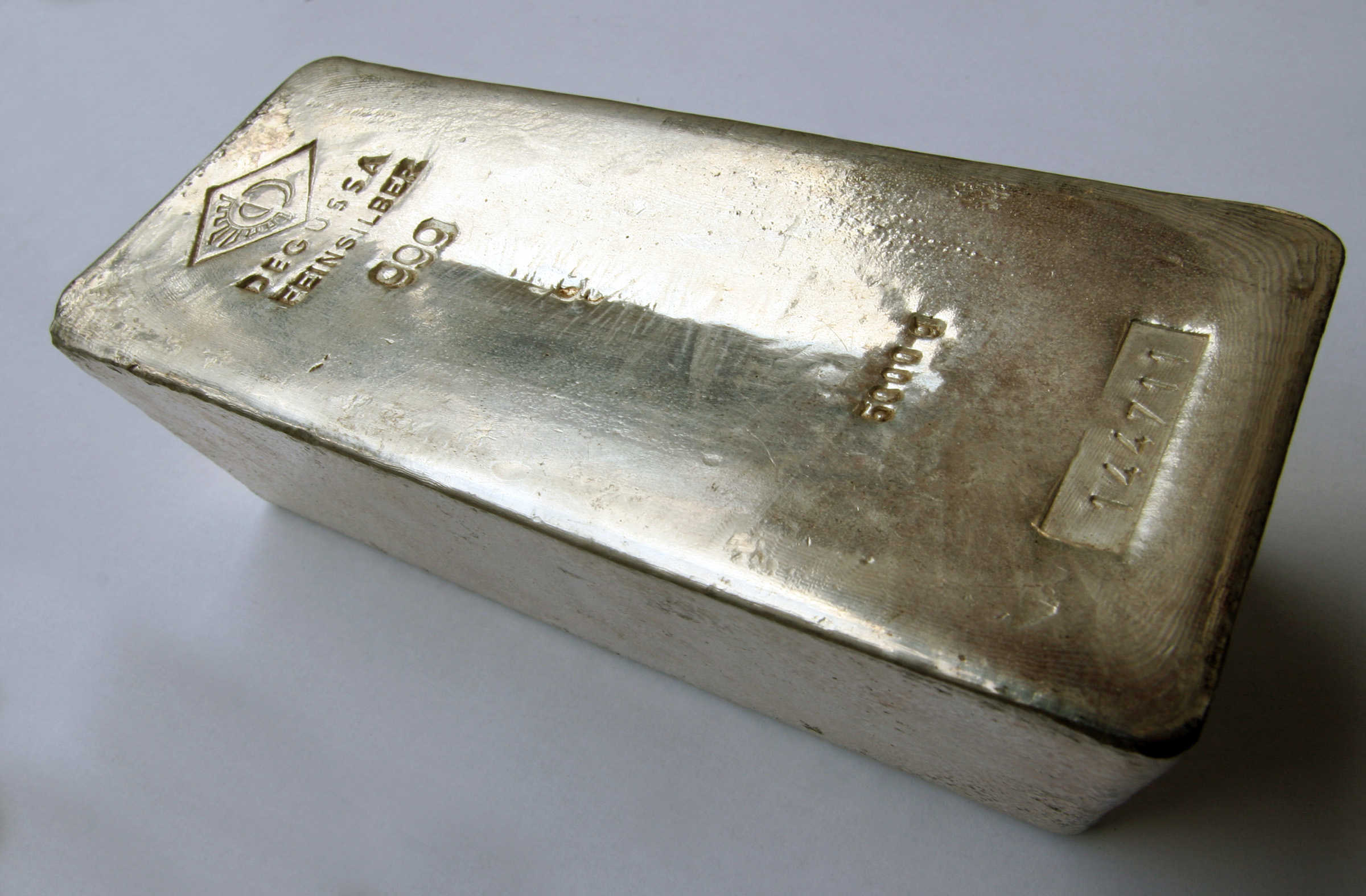 5 kg Silver bar